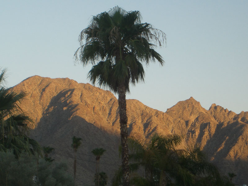 Photo of La Quinta